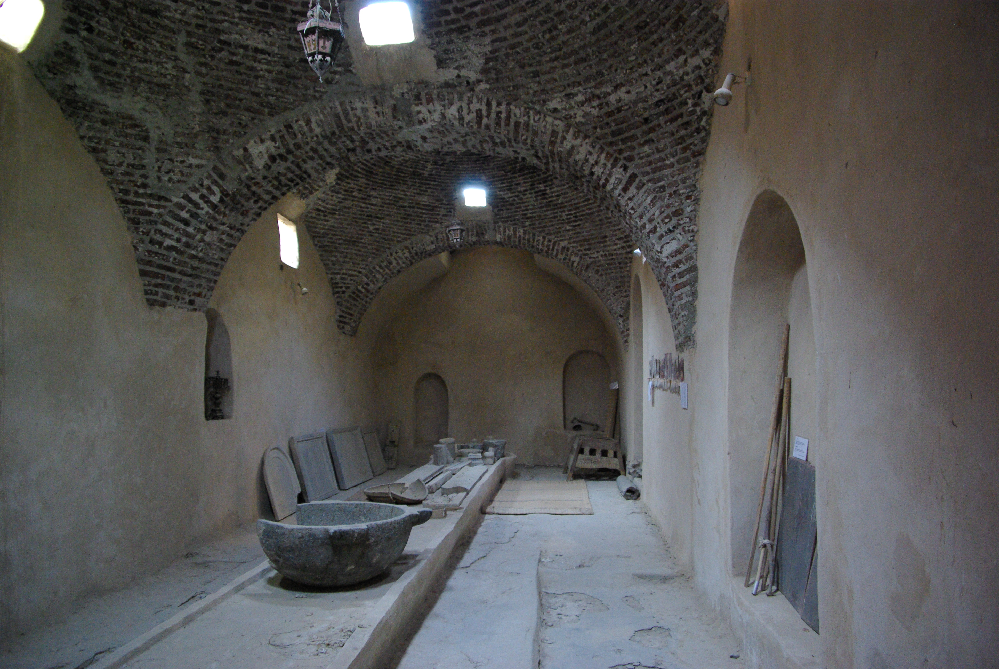 Monastery of Saint Bishoy, Wadi Natrun